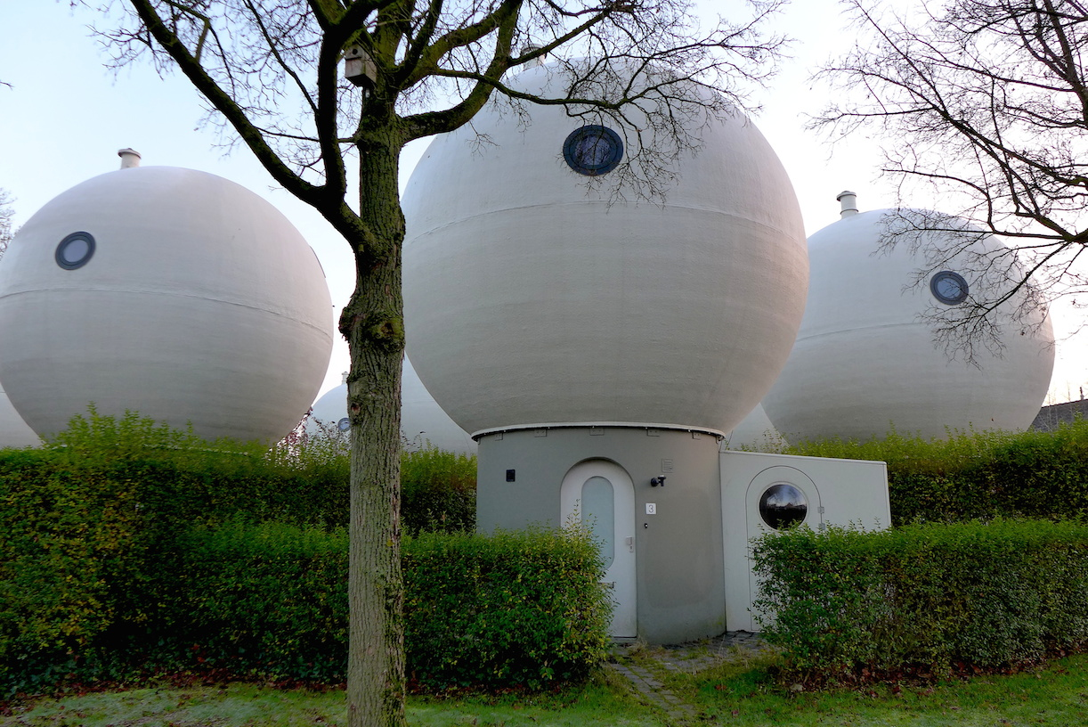 Ball houses at the Bollenveld in the Dutch city 's-Hertogenbosch, designed in the end of the 1970's by architect Dries Kreijkamp.